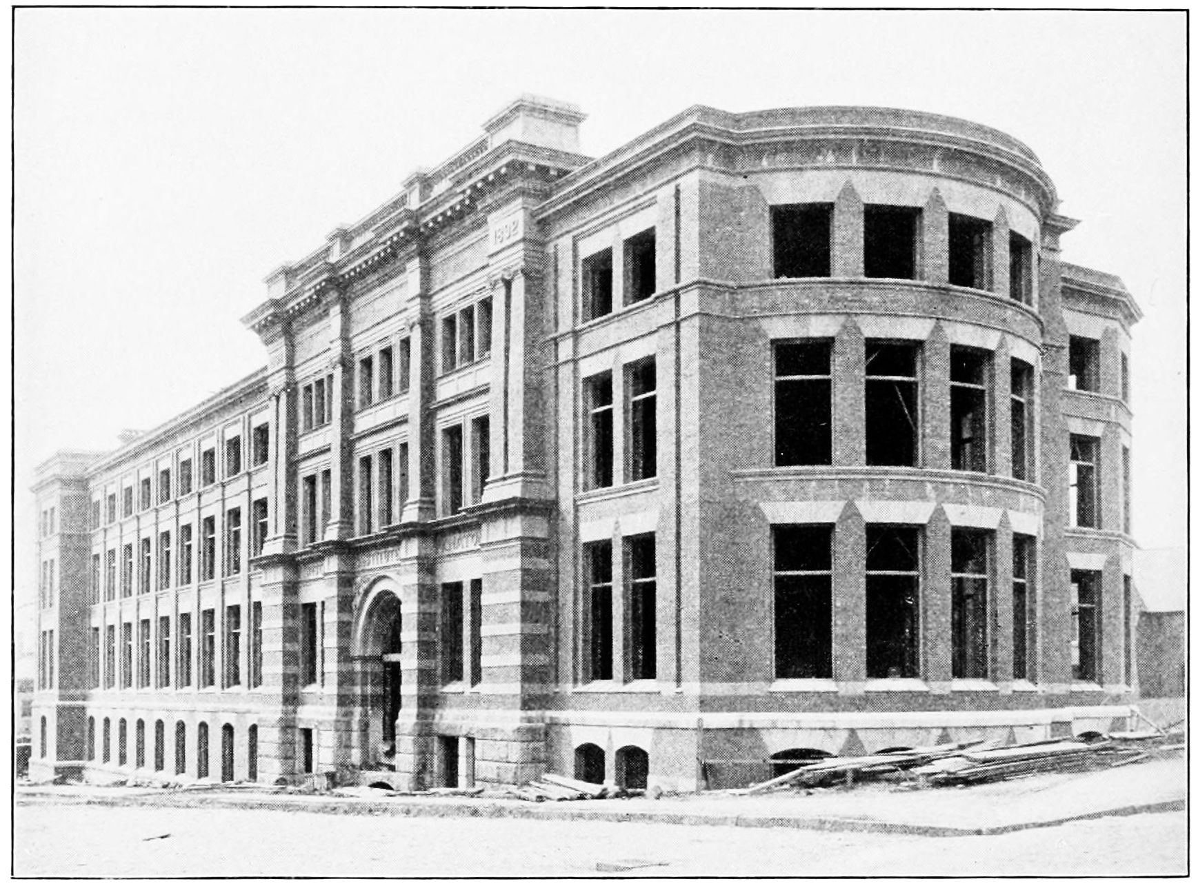 Wistar institute of Anatomy and Biology